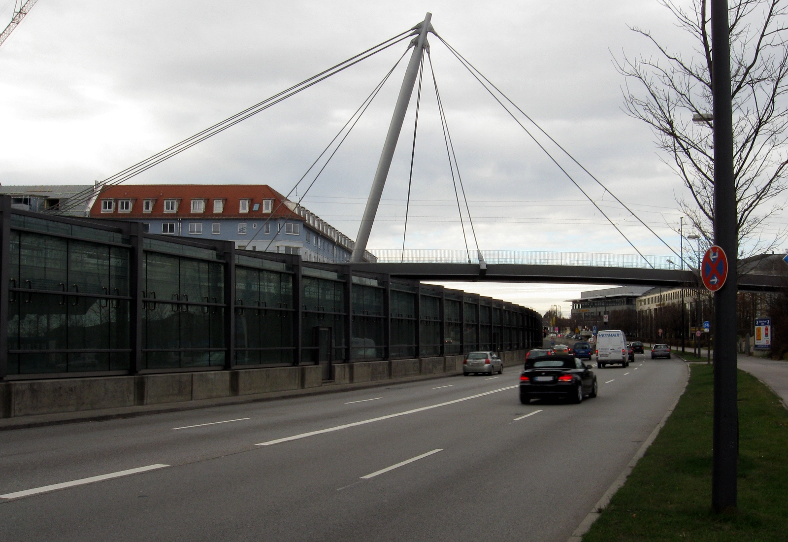 Schenkendorfstraße in Munich (Bavarian, Germany) just before the exit Leopoldstraße (view westwards). In front the glass enclosure of the southern carriageway and the new tram bridge.